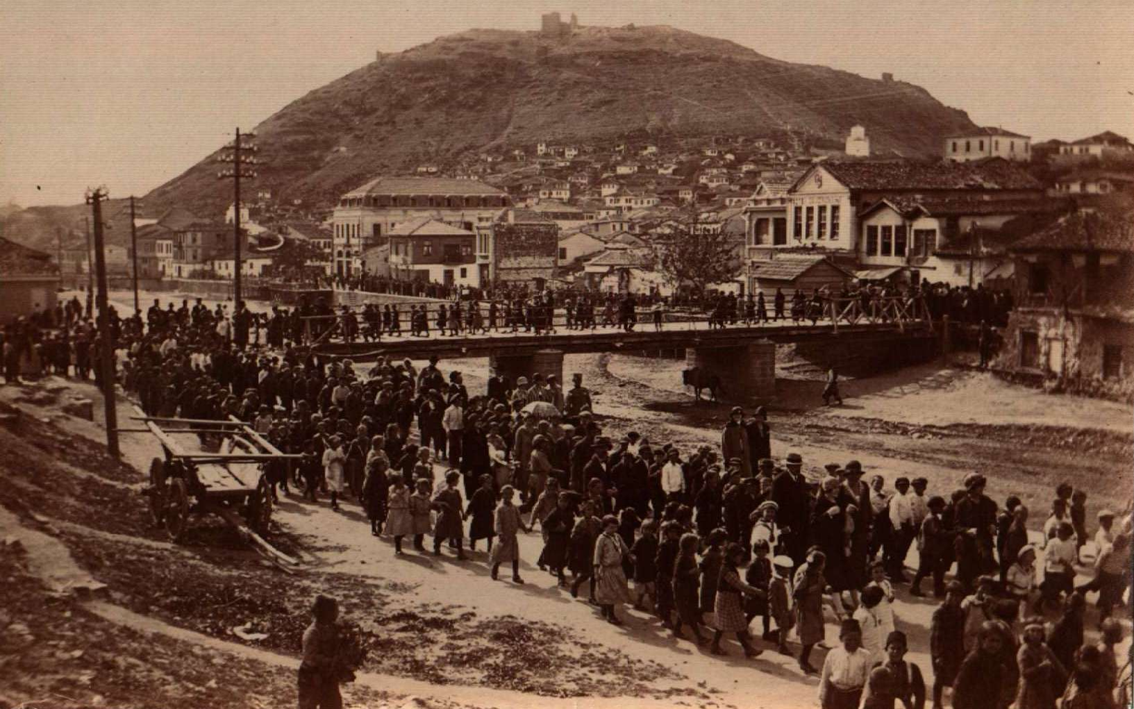 Shtip